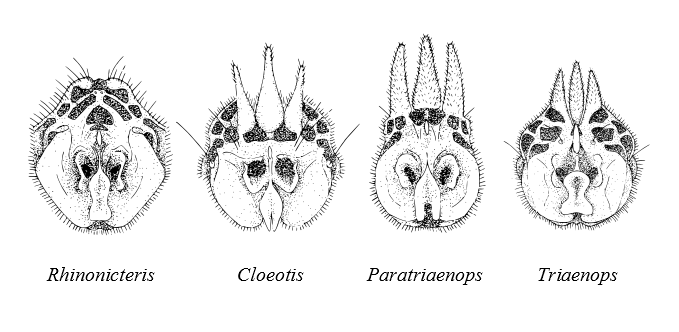 Redrawn from Hill, 1982